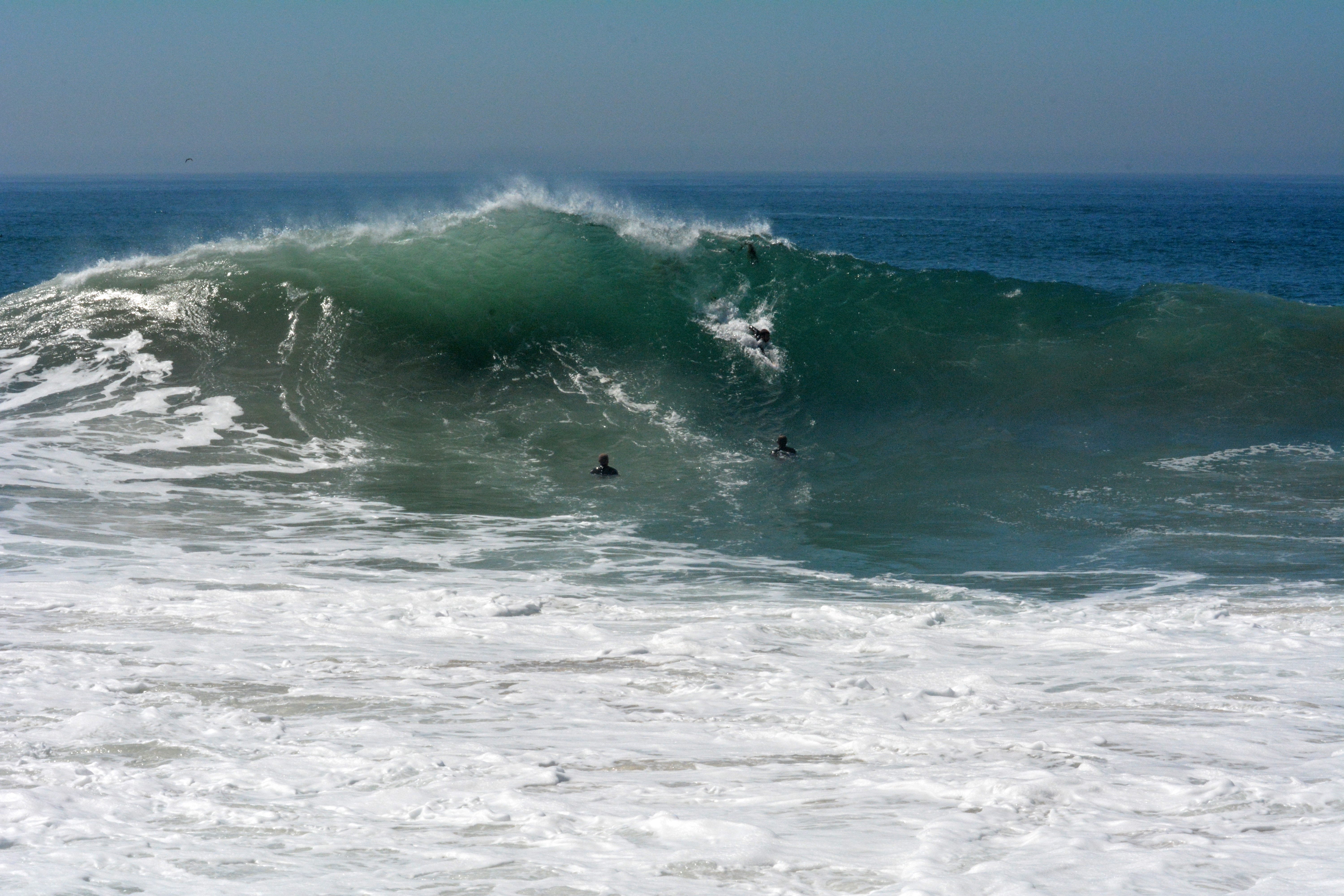 The Wedge Newport beach CA Aug 27 2014 photo D Ramey Logan